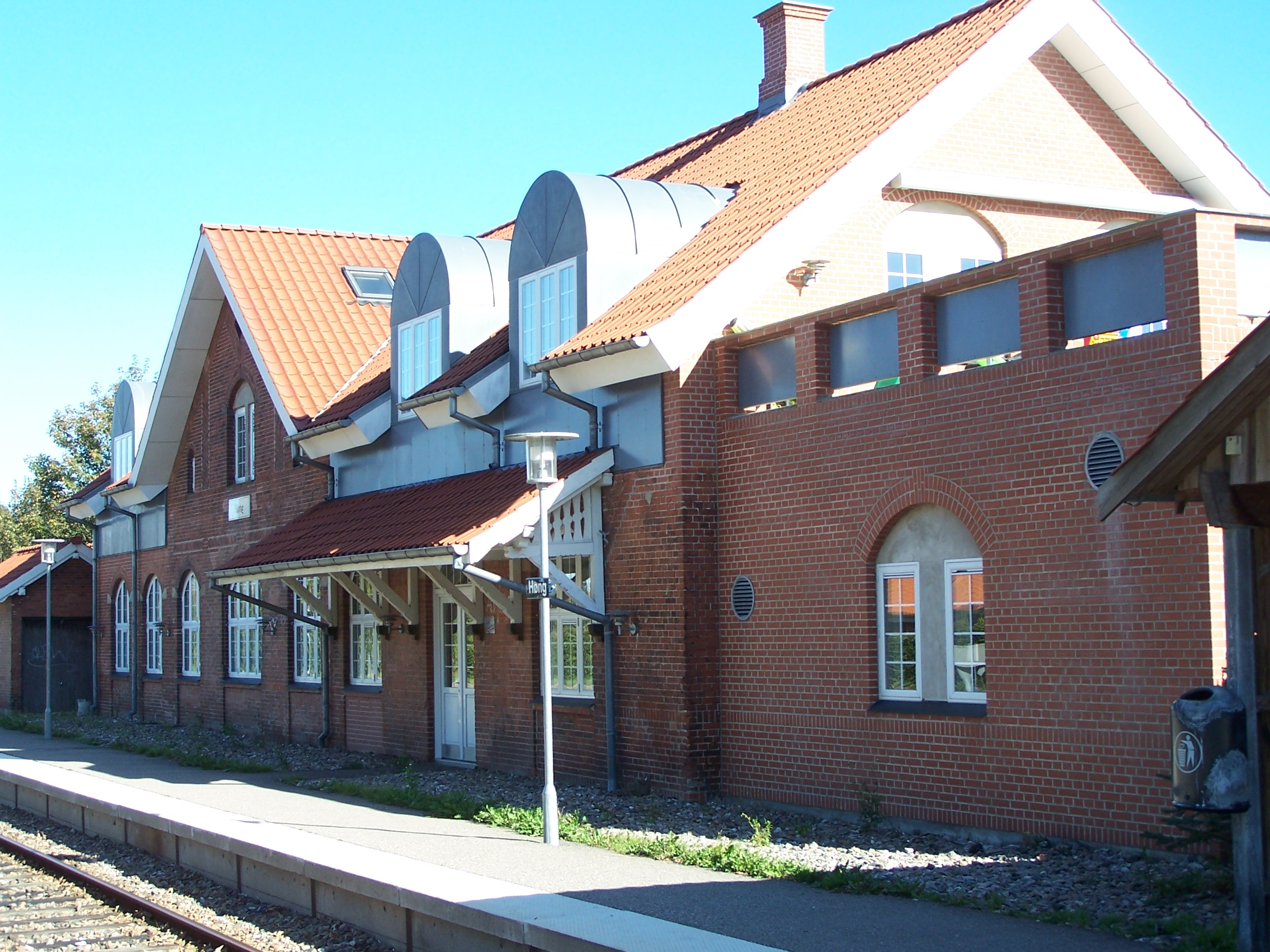 Høng Train station, track side 客家語/Hak-kâ-ngî: Høng togstation, banesiden